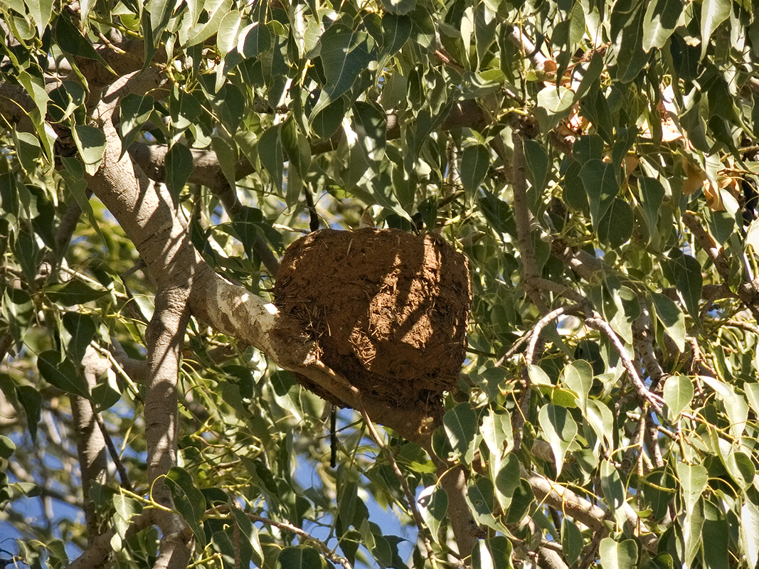 Apostlebird (Struthidea cinerea) taken in central Australia